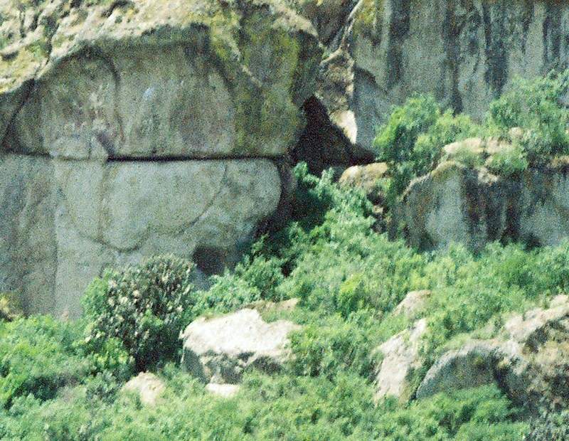 Guila Naquitz cave (or so I was told) Oaxaca, Mexico, the site of the oldest known remains of maize (corn). Taken from a tour van. I hope someone gets a better picture. —JerryFriedman 21:17, 27 March 2006 (UTC)